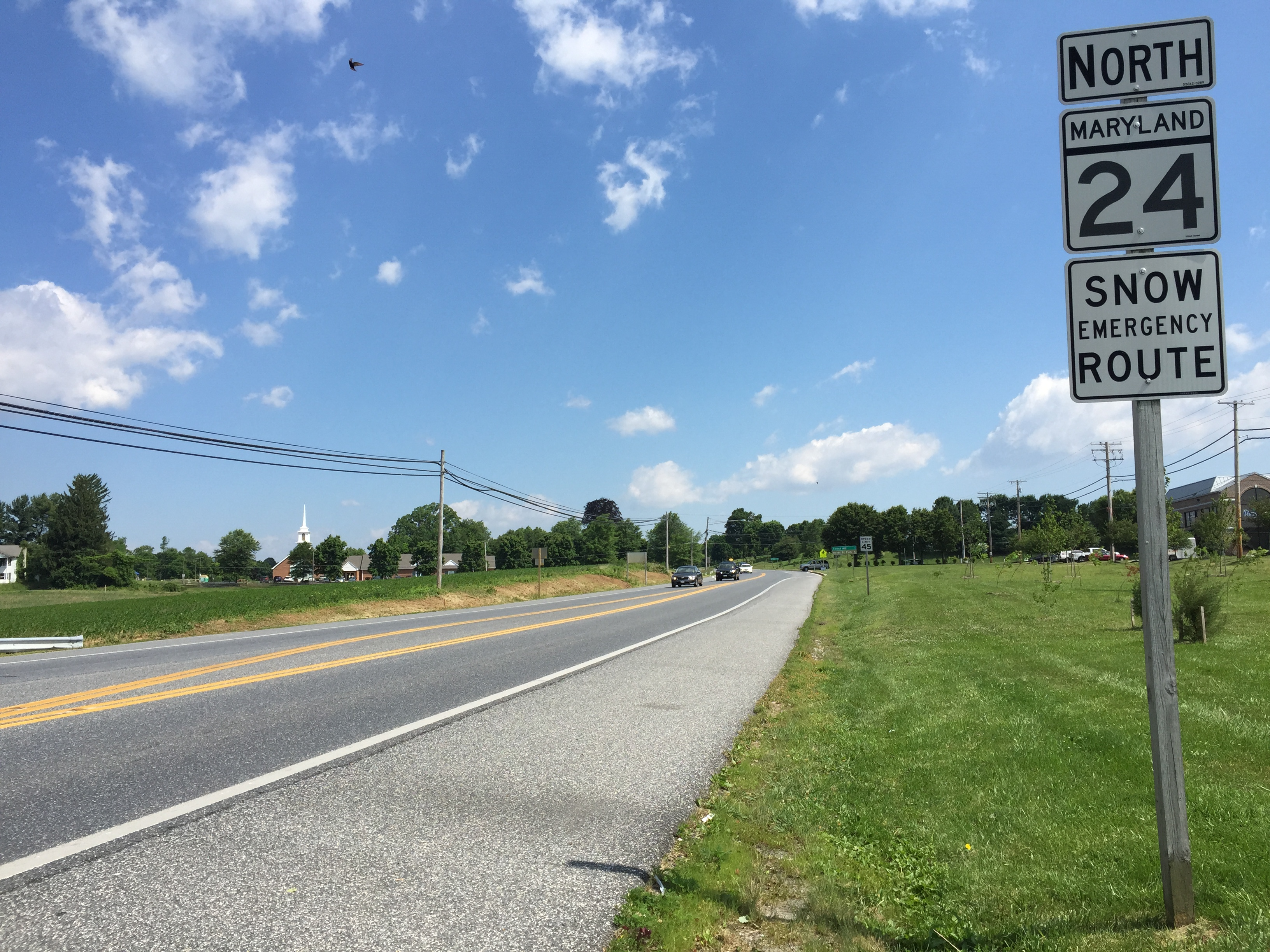 View north along Maryland State Route 24 (Rock Spring Road) just north of Maryland State Route 23 (East-West Highway) in Forest Hill, Harford County, Maryland